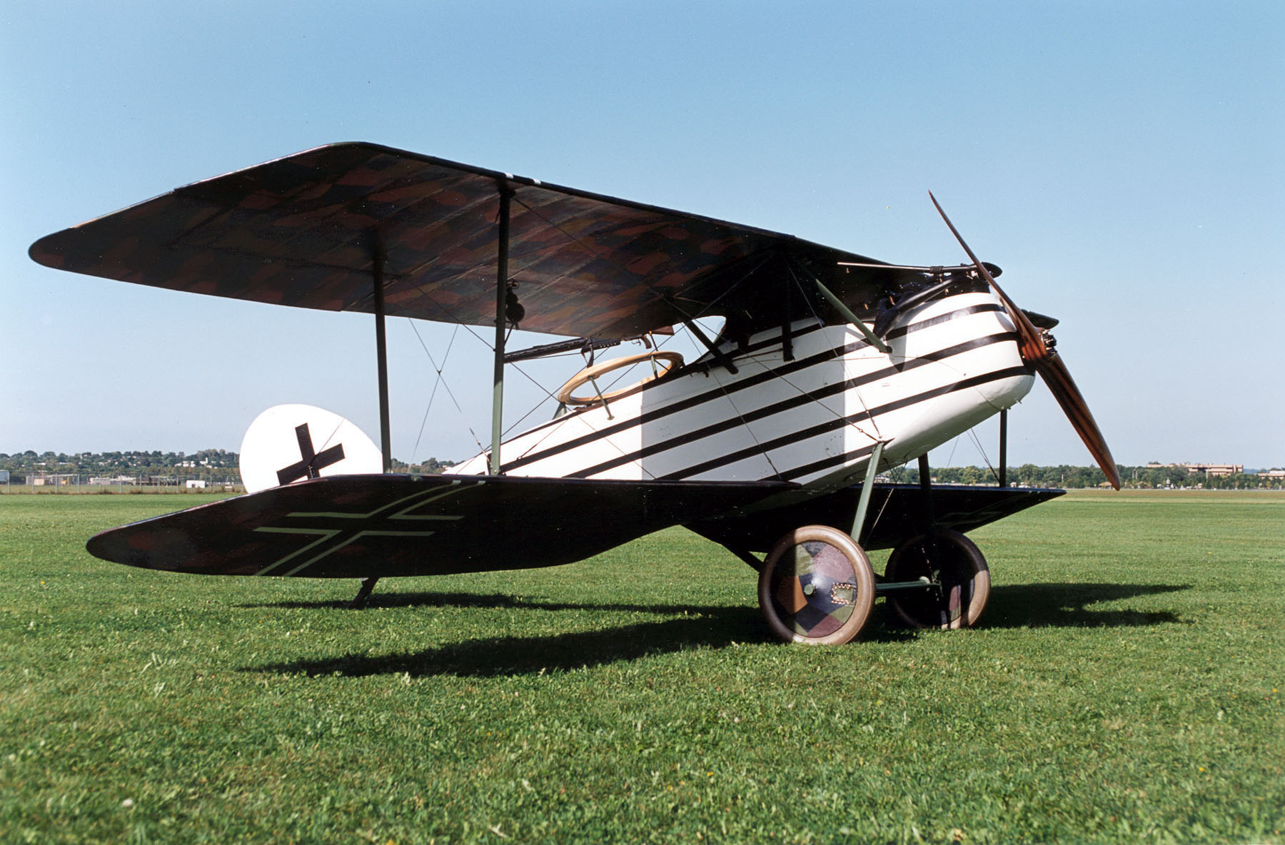 Halberstadt CL IV of National Museum of the United States Air Force collection.